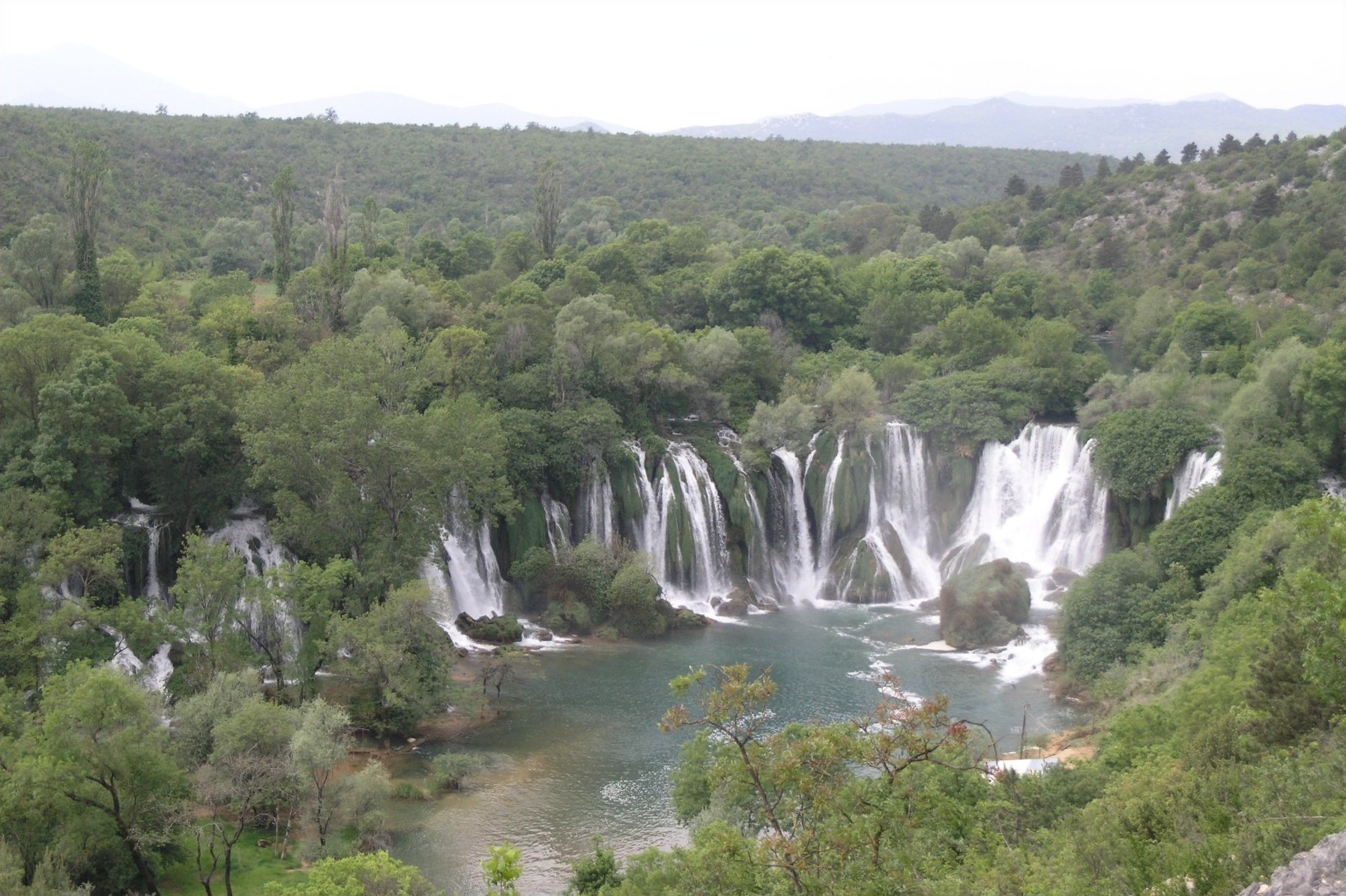 Bosnia and Herzegovina - Kravica Waterfalls